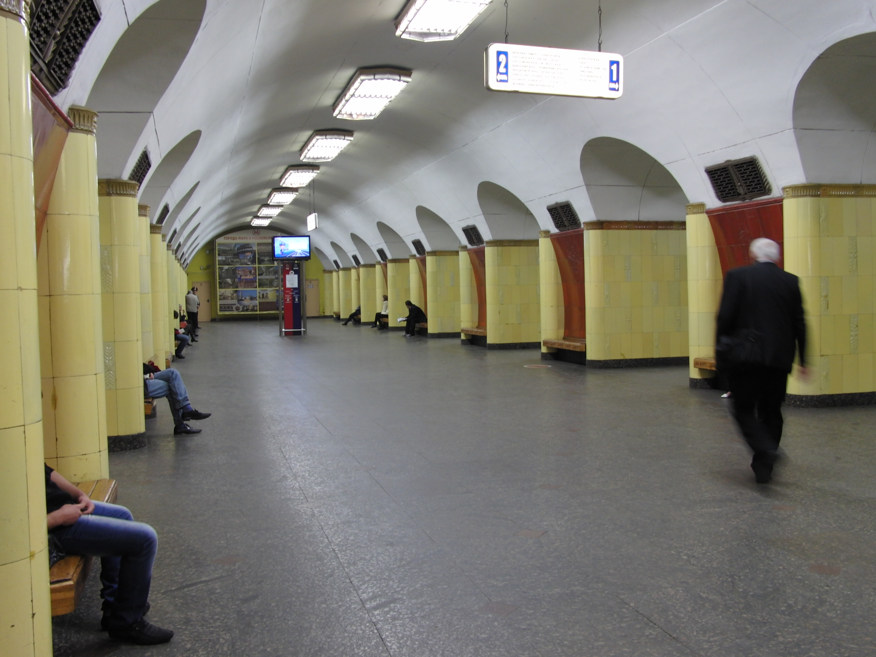 Rizhskaya station in 2010.